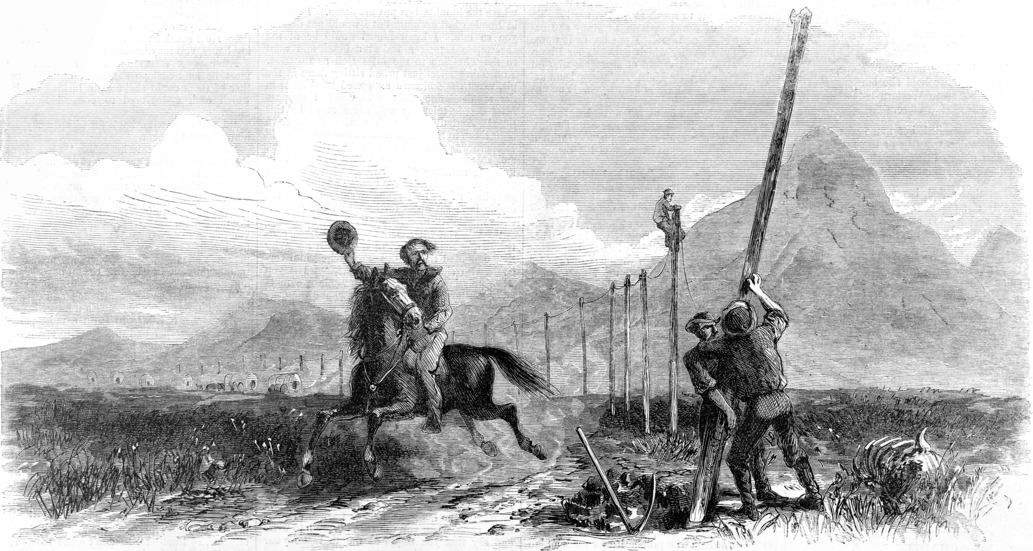 The overland pony express — [Photographed by Savage, Salt Lake City; from a painting by George M. Ottinger.]